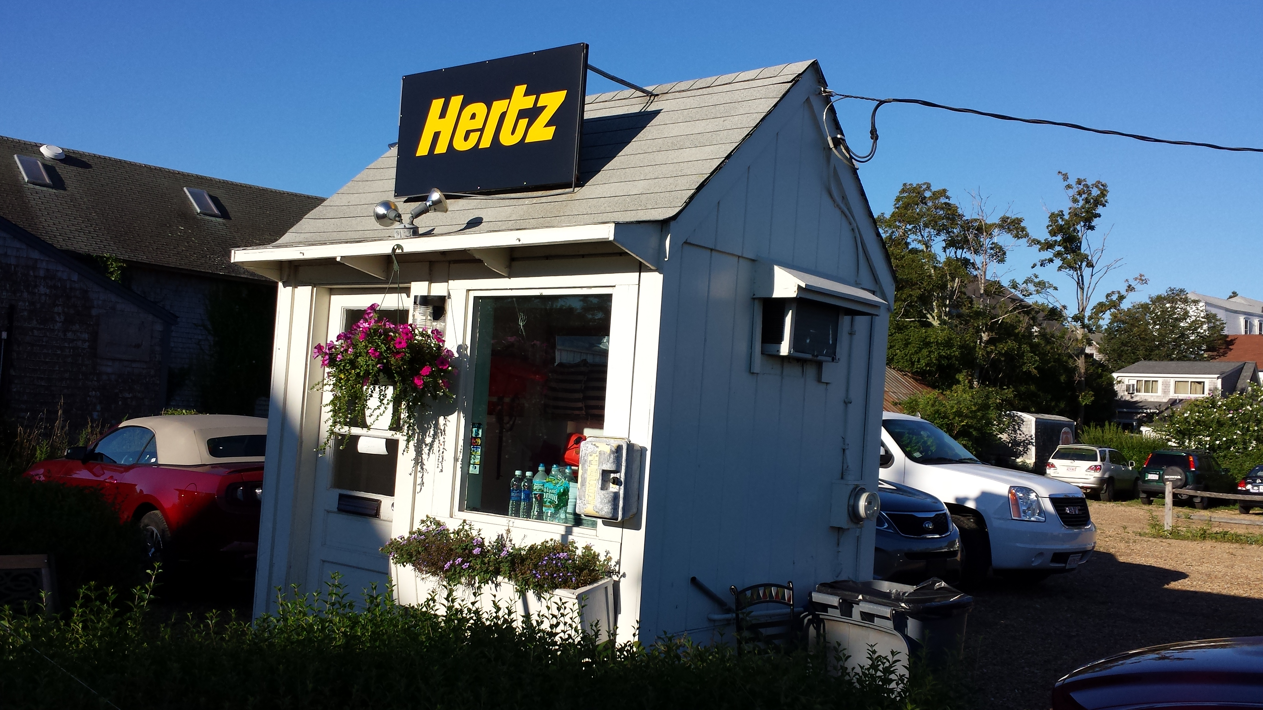 Hertz office on the island of Martha's Vineyard.